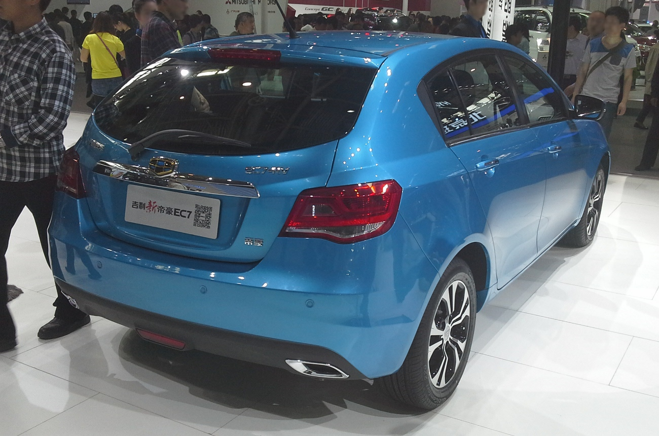 Emgrand EC7-RV facelift photographed at the Auto China 2014, Beijing, China.